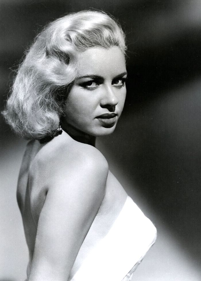 Jeanne Carmen in Portland Exposé publicity photo